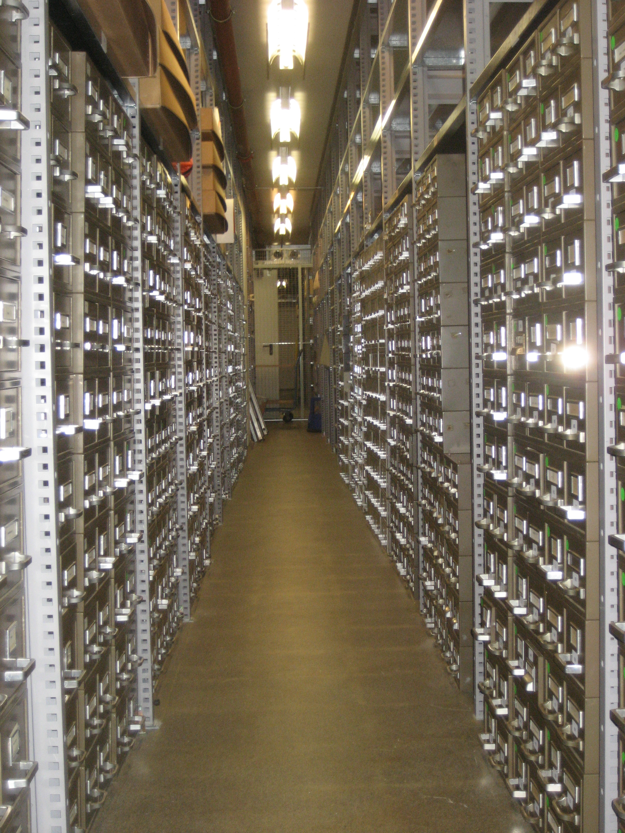 Meertens Instituut, Joan Muyskenweg 25, Amsterdam, The Netherlands.